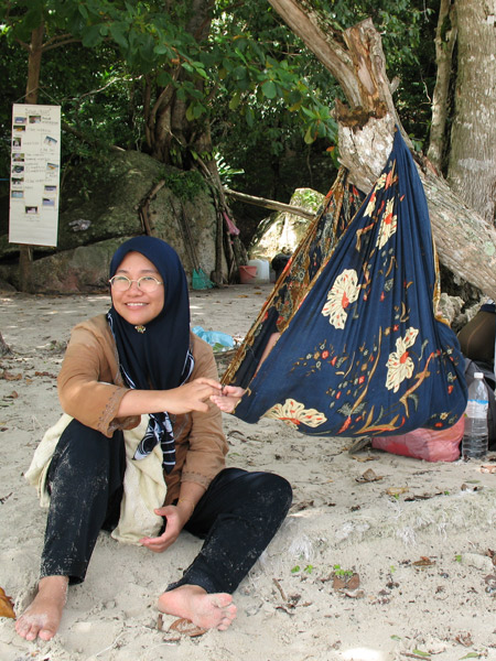 A young child in a makeshift Hammock.